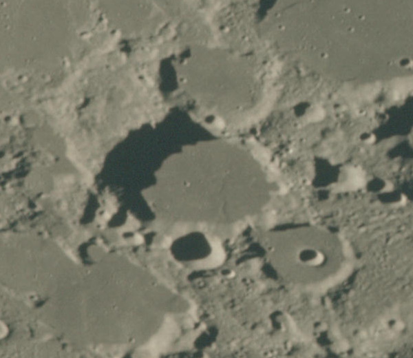 Oblique view of Petrov, Mare Australe, on the far side of the moon. North at top.